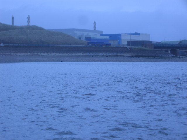 Mouth of the rivers Calder and Ehen. Fast flowing fresh water from the rivers running down the beach tide out has allowed this most odd effect photo. Thorp in the background.